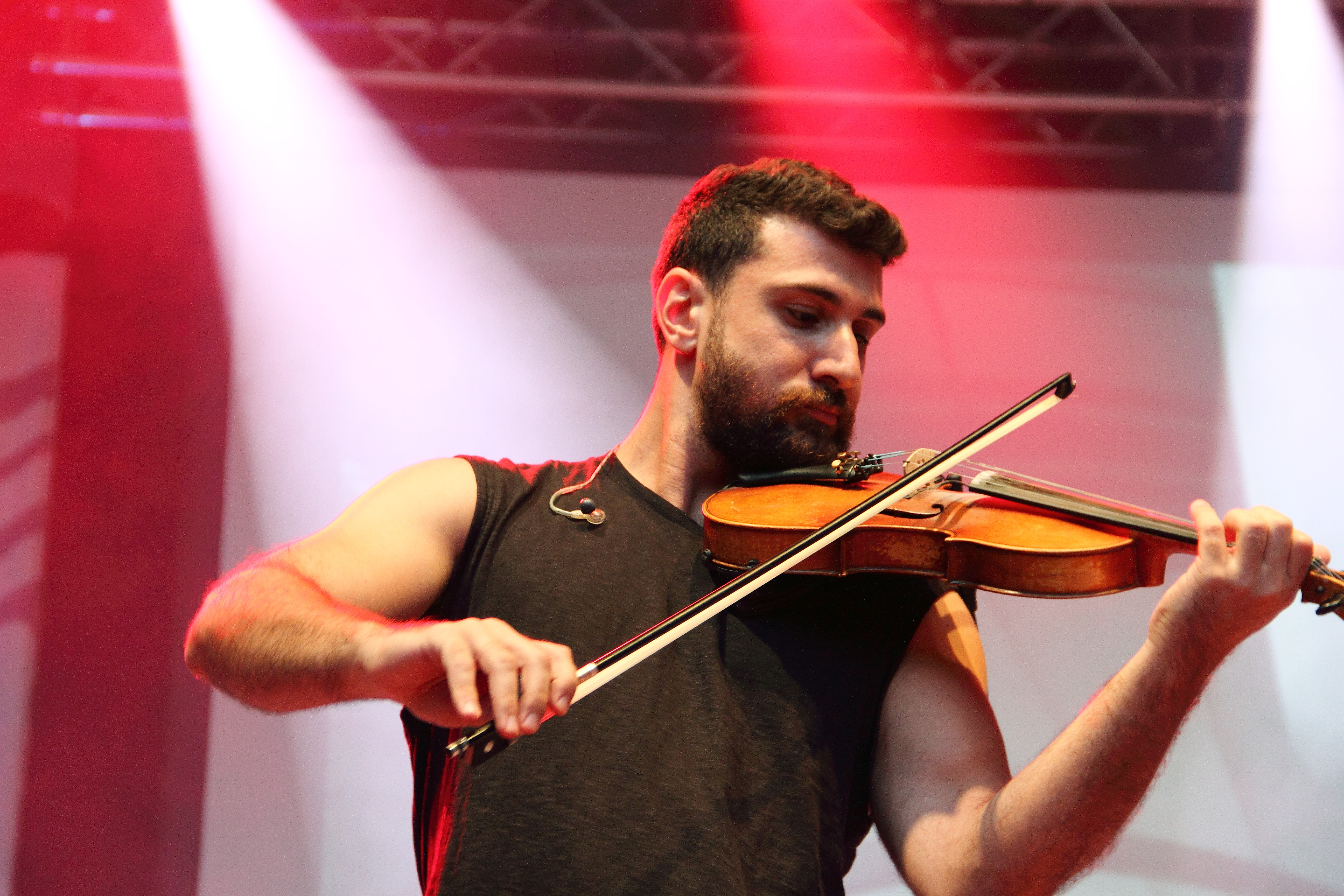 Mashrou' Leila from Lebanon at Rudolstadt-Festival 2018.